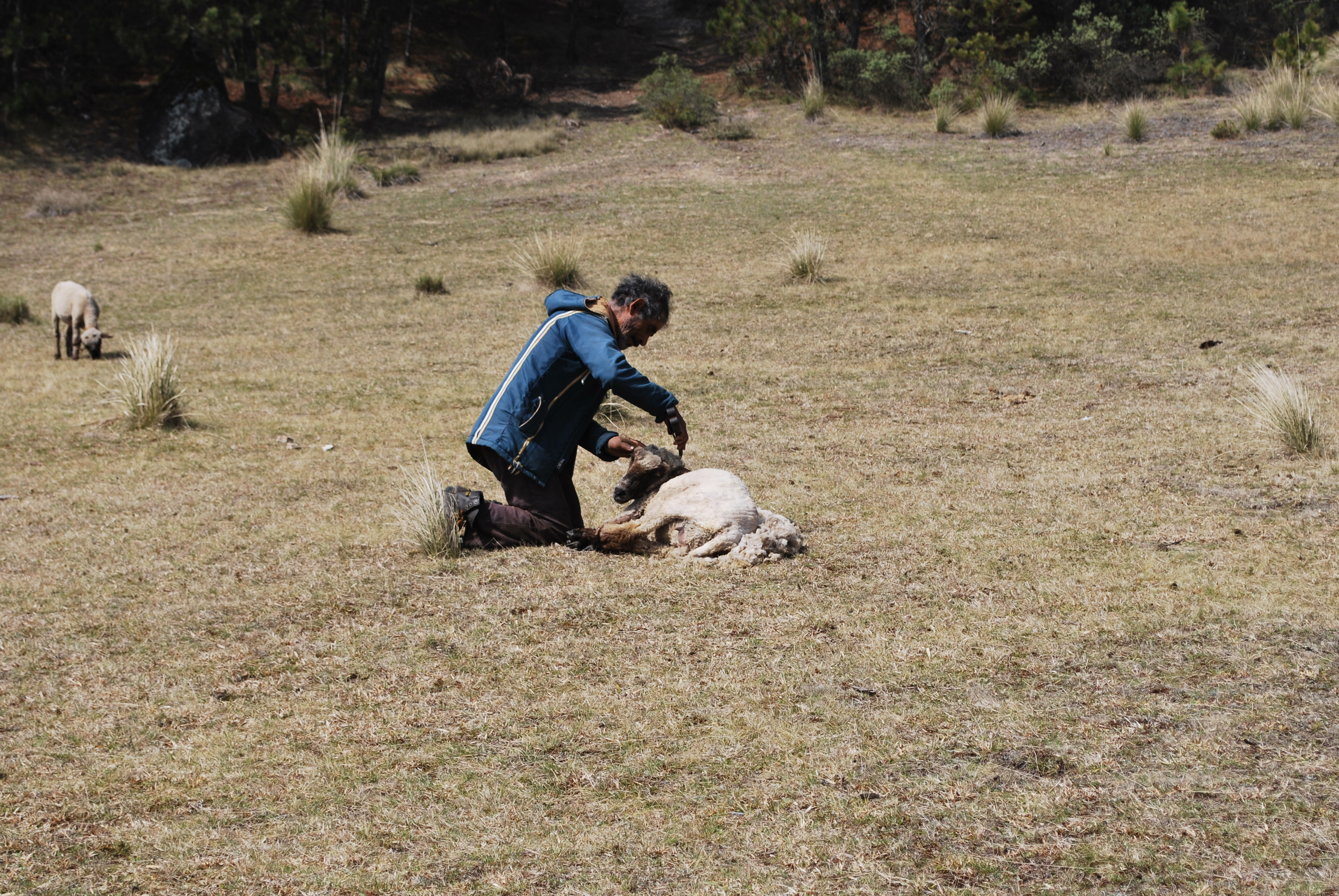 Shepherd shearing sheep at the Valle de las Piedras Encimadas in Zacatlán, Puebla, Mexico